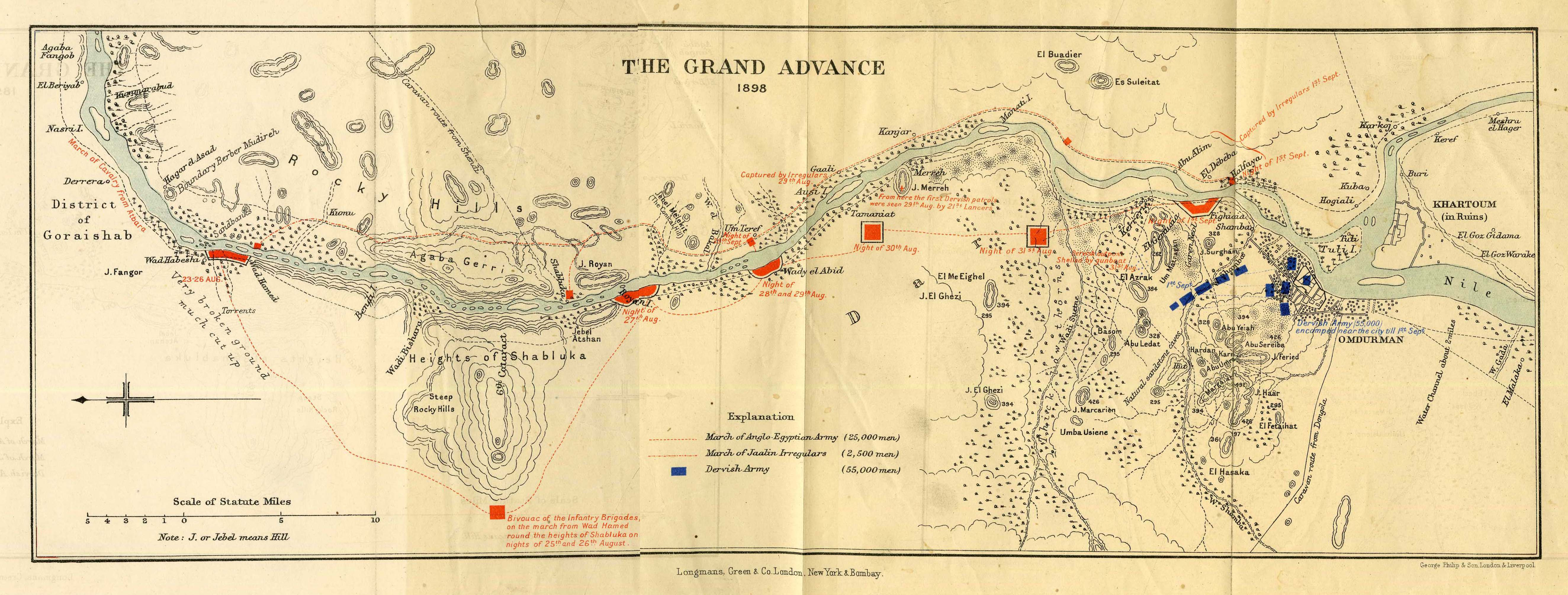 The grand Advance 1898